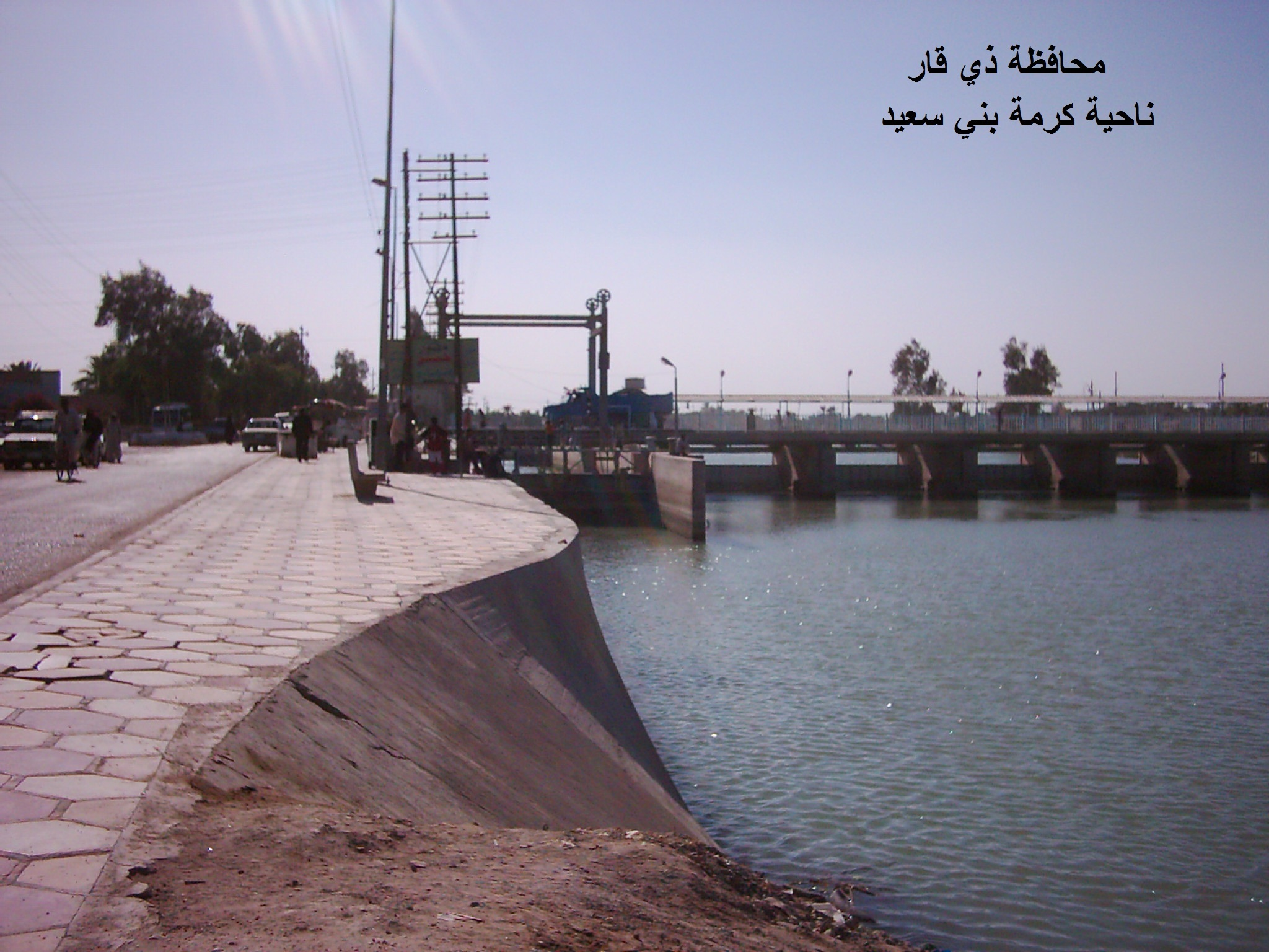 Karmat Beni Sa'eed